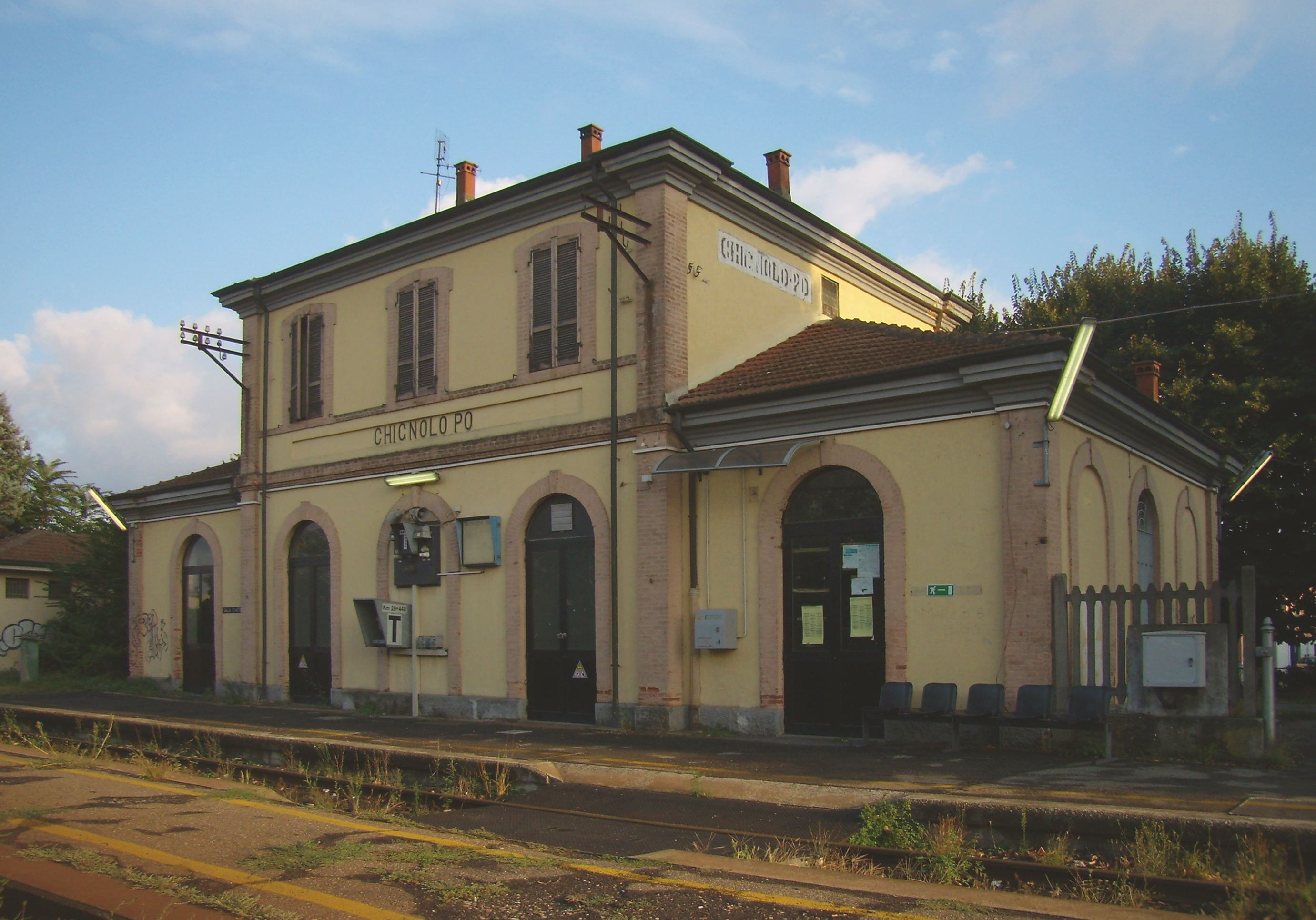 Railway station in Chignolo Po (PV), Italy